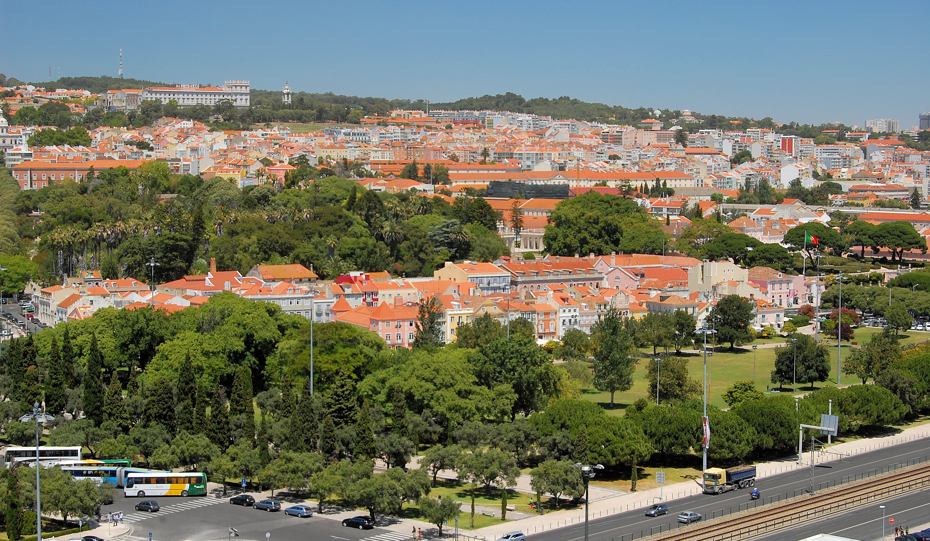 Vasco da Gama Garden in Lisbon, Portugal